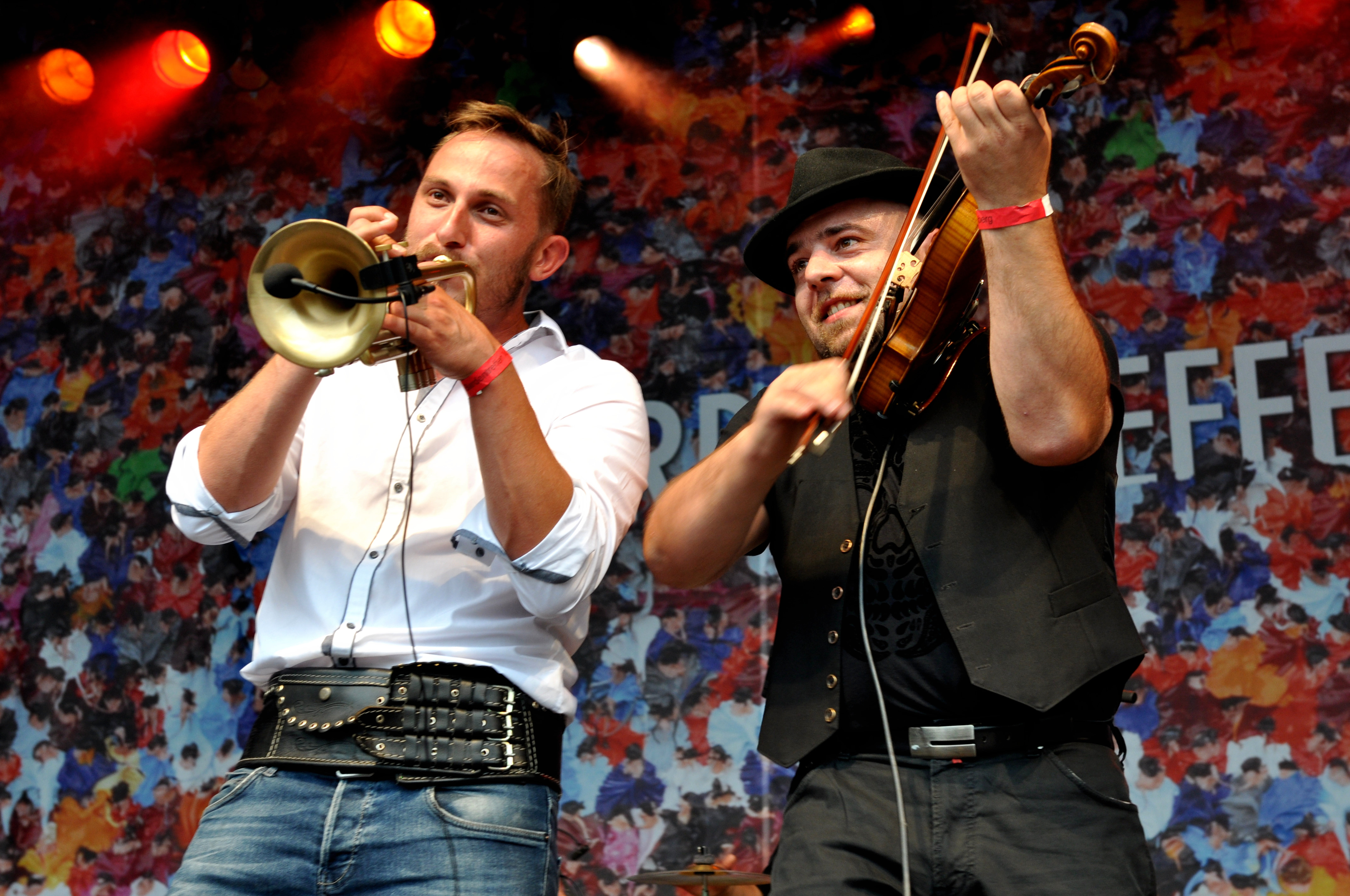 Dikanda (POL), Schuett island stage, 40th music festival 'Bardentreffen' 2015 at Nuremberg, Germany Festivalsommer This photo was created with the support of donations to Wikimedia Deutschland in the context of the CPB project "Festival Summer".